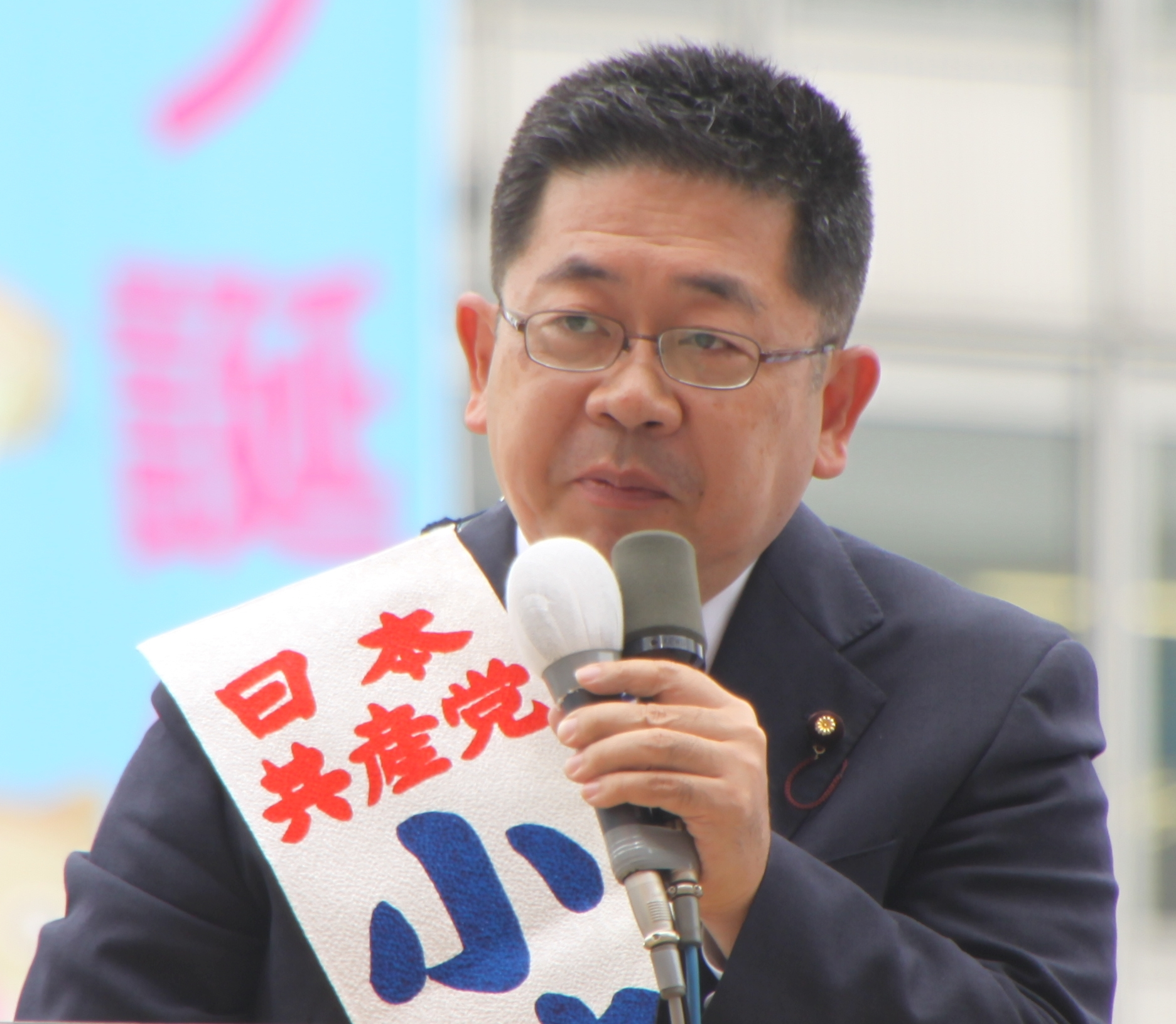 Akira Koike of the Japanese Communist Party speaking near Shinjuku Station in Tokyo